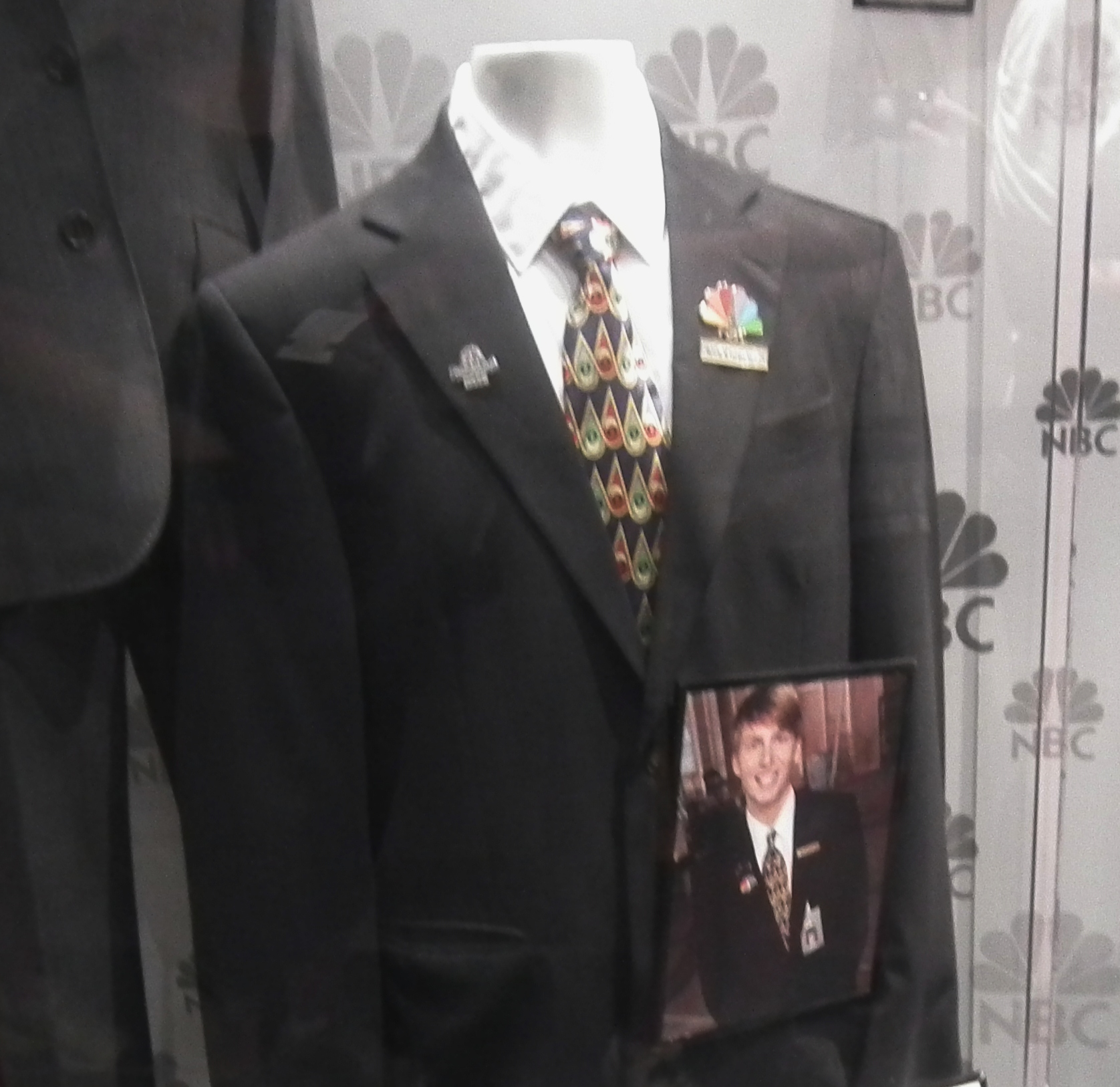 NBC Studio Tour